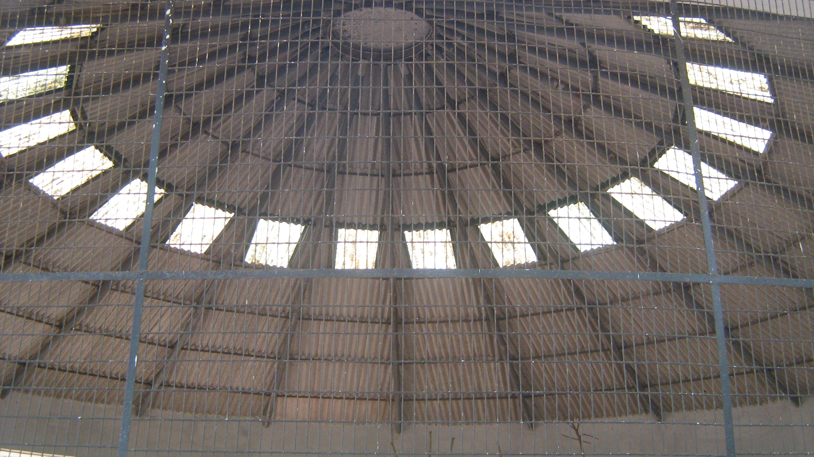 One of the place in Vandalur zoo(Arignar Anna Zoological Park) Tamil Nadu.